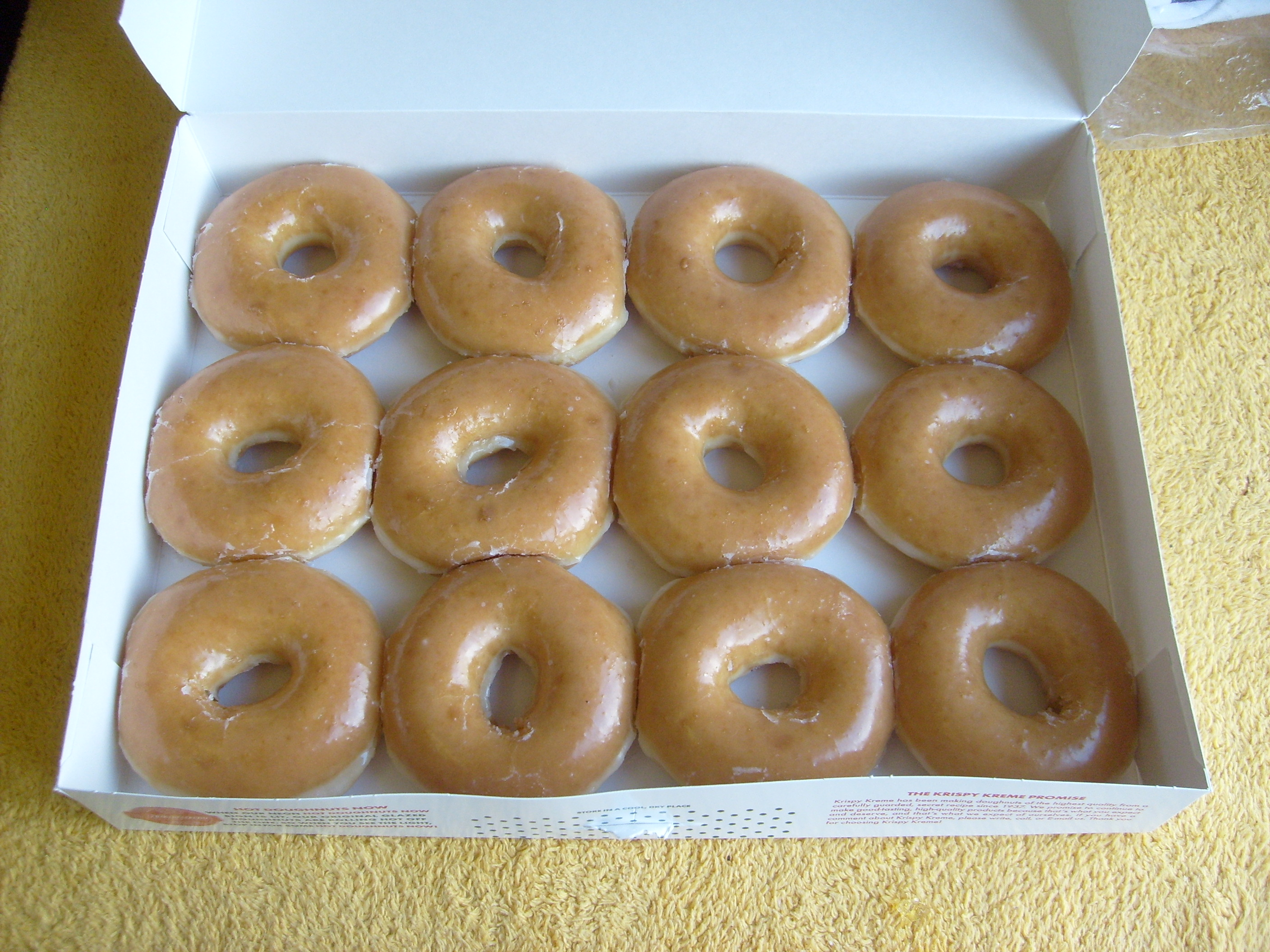 A photo of 12 Original Glazed doughnuts from Krispy Kreme.